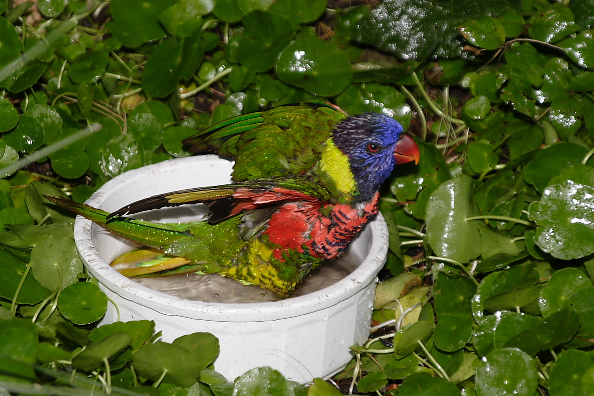 Green Naped Lorikeet in a Bird bath in the Children's zoo at the Saint Louis Zoological Park, St. Louis, Missouri